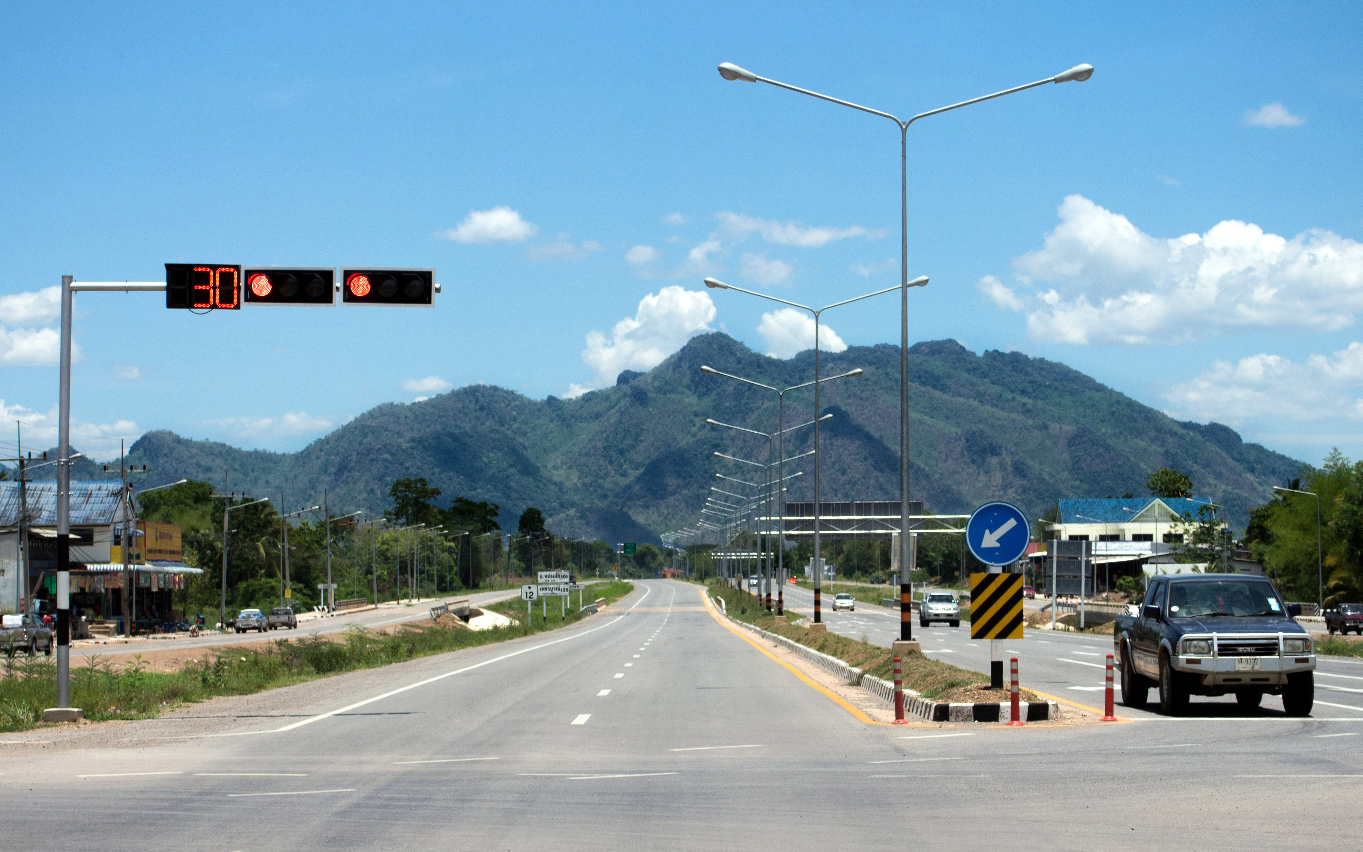 Looking west towards the Phetchabun Mountains on Highway 12 at the intersection of Highway 12 and road 2055 at Khon San, Chaiyaphum Province.